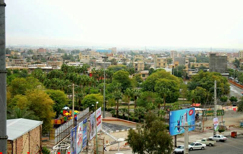 تصویر مربوط به سایت خبری لوار ما_خالق محمدرضا براهام_